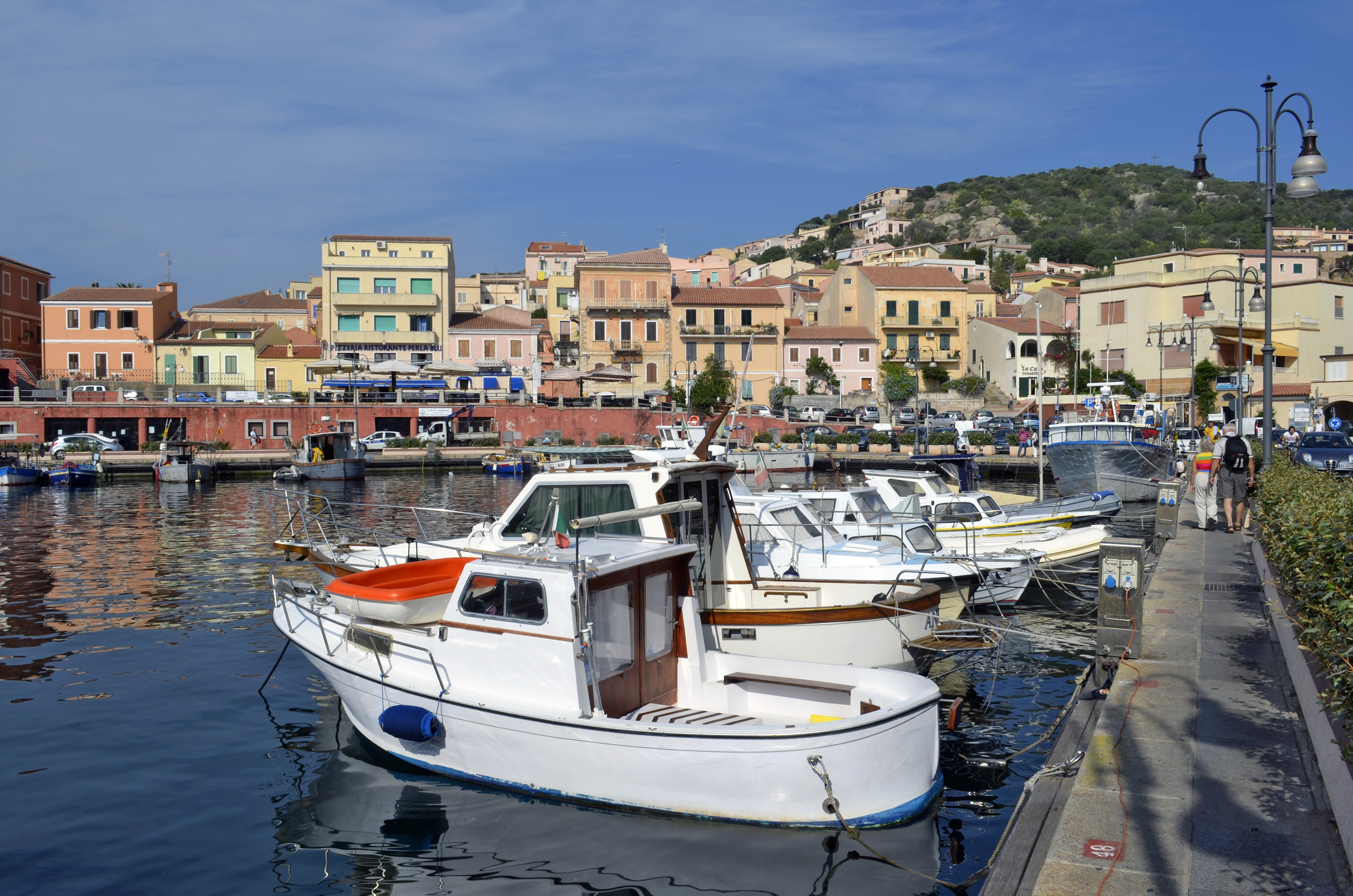 Cala Gavetta, La Maddalena (Sardegna)